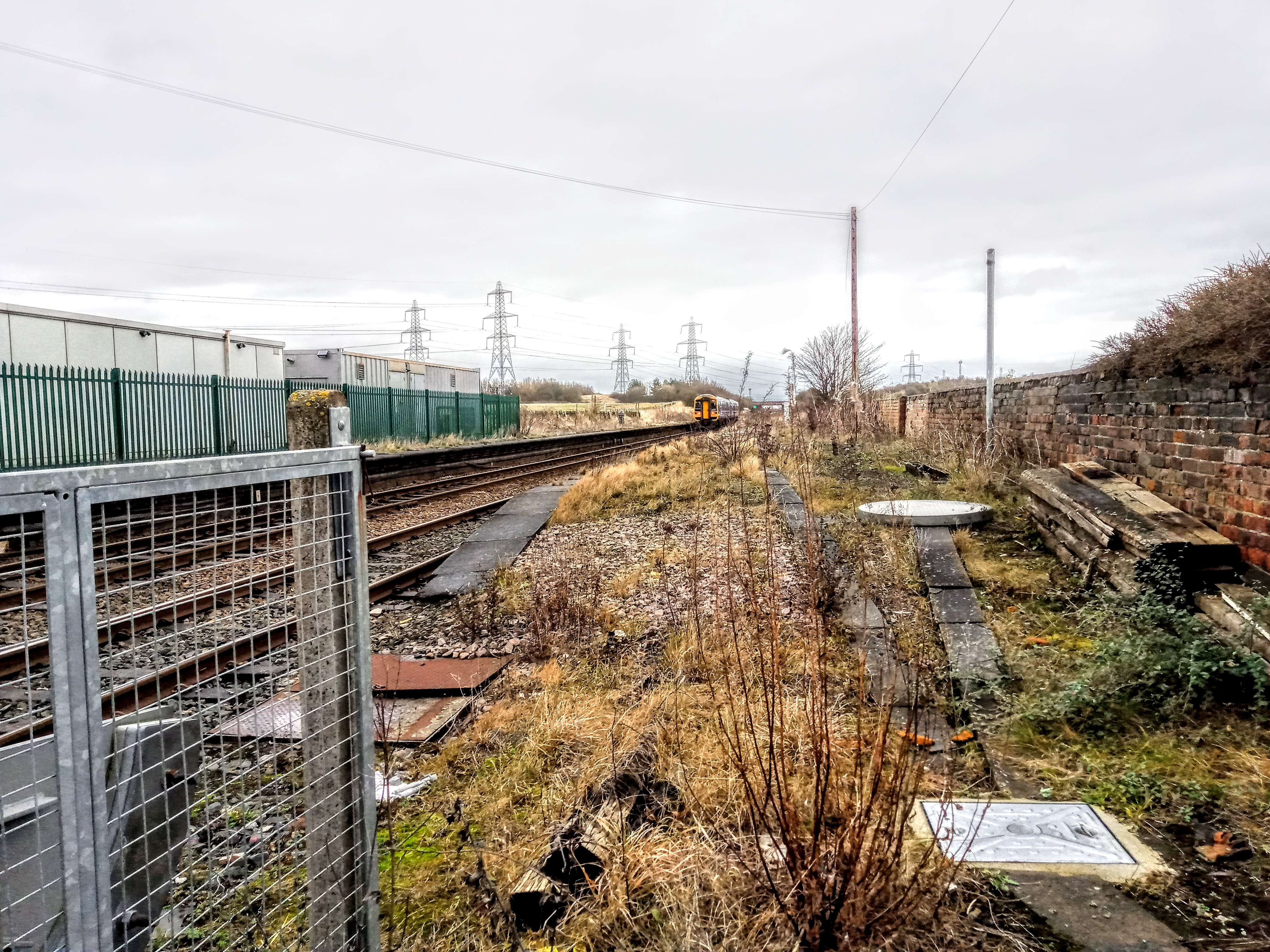 Greatham